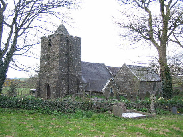 Eglwys y Santes Fair A view from the graveyard of the church of St. Mary at Llanfairynghornwy.